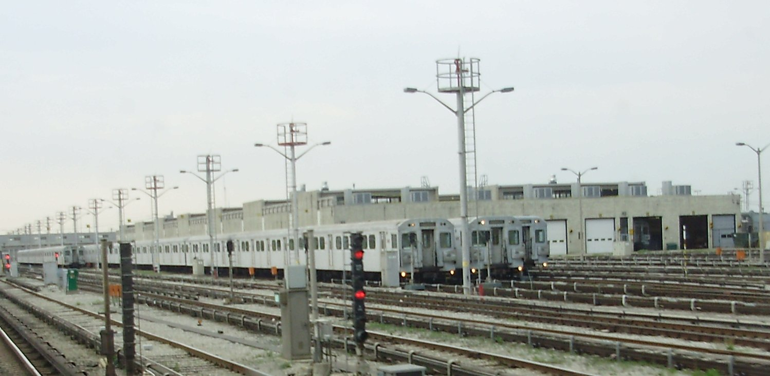 The Toronto Transit Commission's Wilson Complex, a subway train maintenance facility, photographed from the forward car of a southbound train.